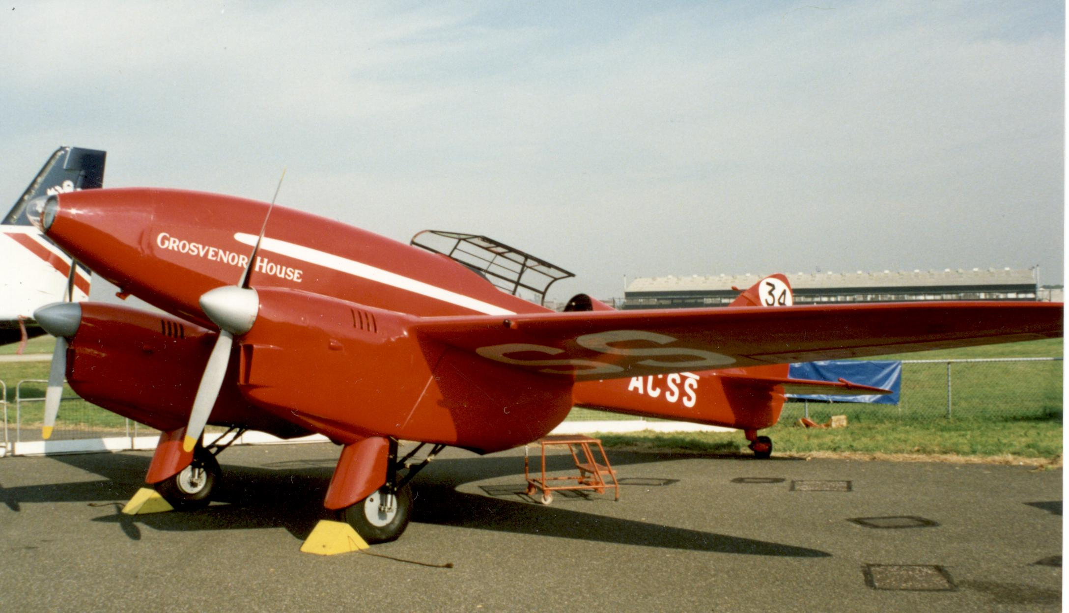 de Havilland DH.88 Comet Racer G-ACSS "Grosvenor House" at the Farnborough SBAC Show